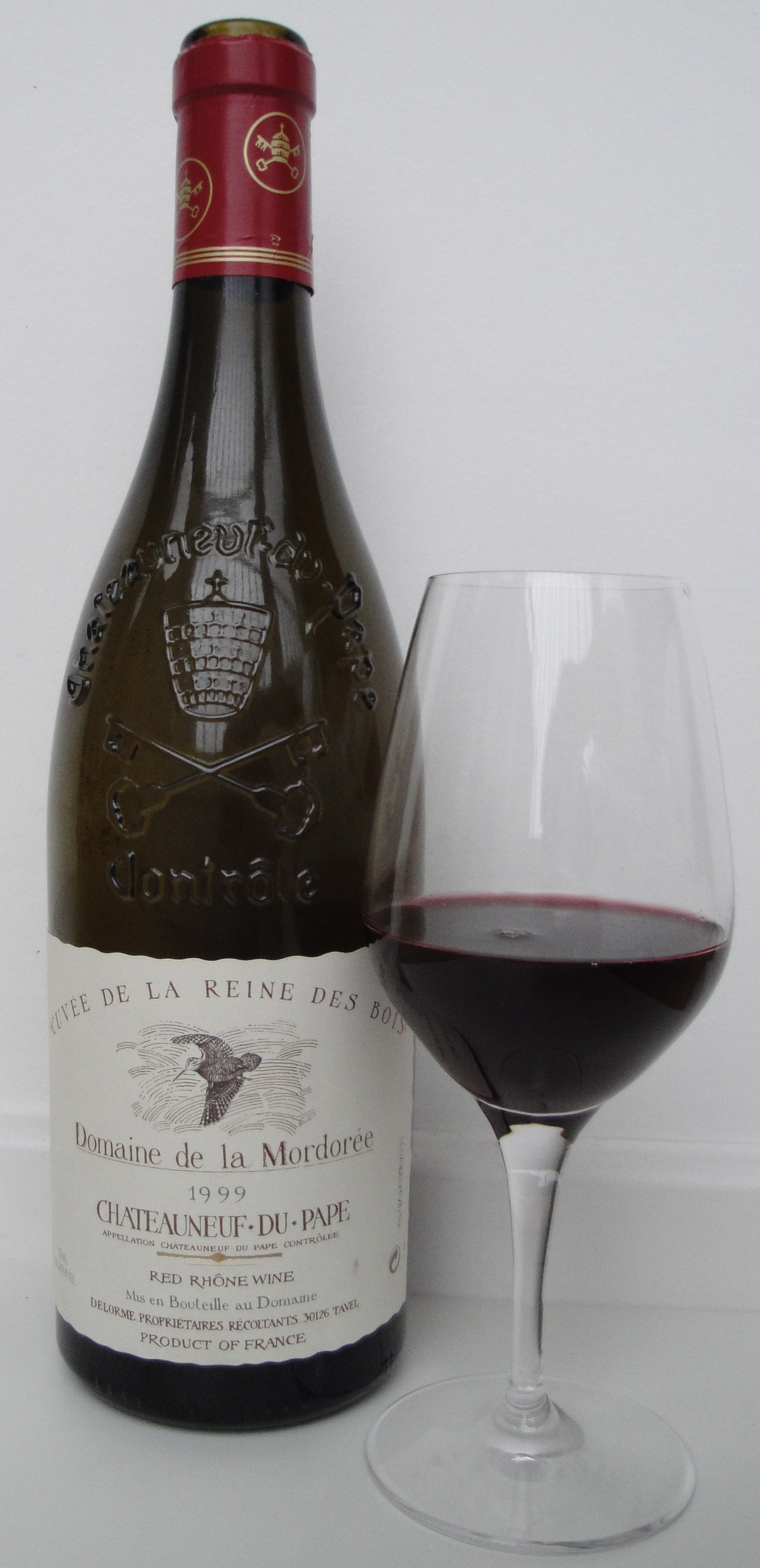 A 1999 Cuvée de la Reine des Bois from Domaine de la Mordorée, a wine from Châteauneuf du Pape in southern Rhône.